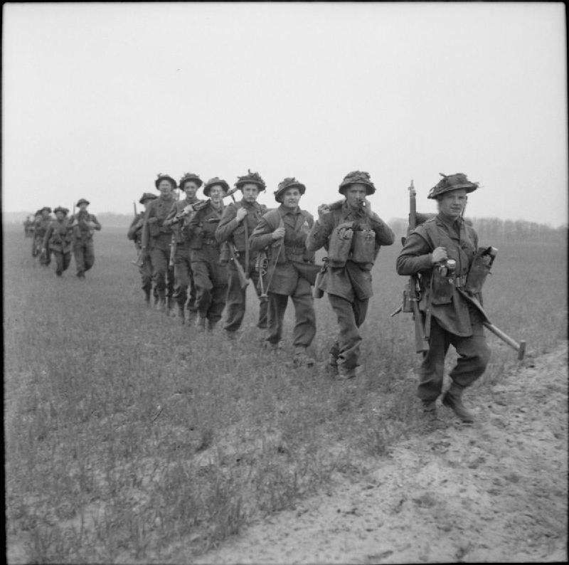 The British Army in North-west Europe 1944-45 Infantry of the Royal Scots Fusiliers advance in single file during operations to outflank German resistance in Uelzen, 16 April 1945.